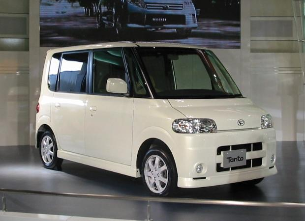 Daihatsu_Tanto taken in The 37th Tokyo Motor Show